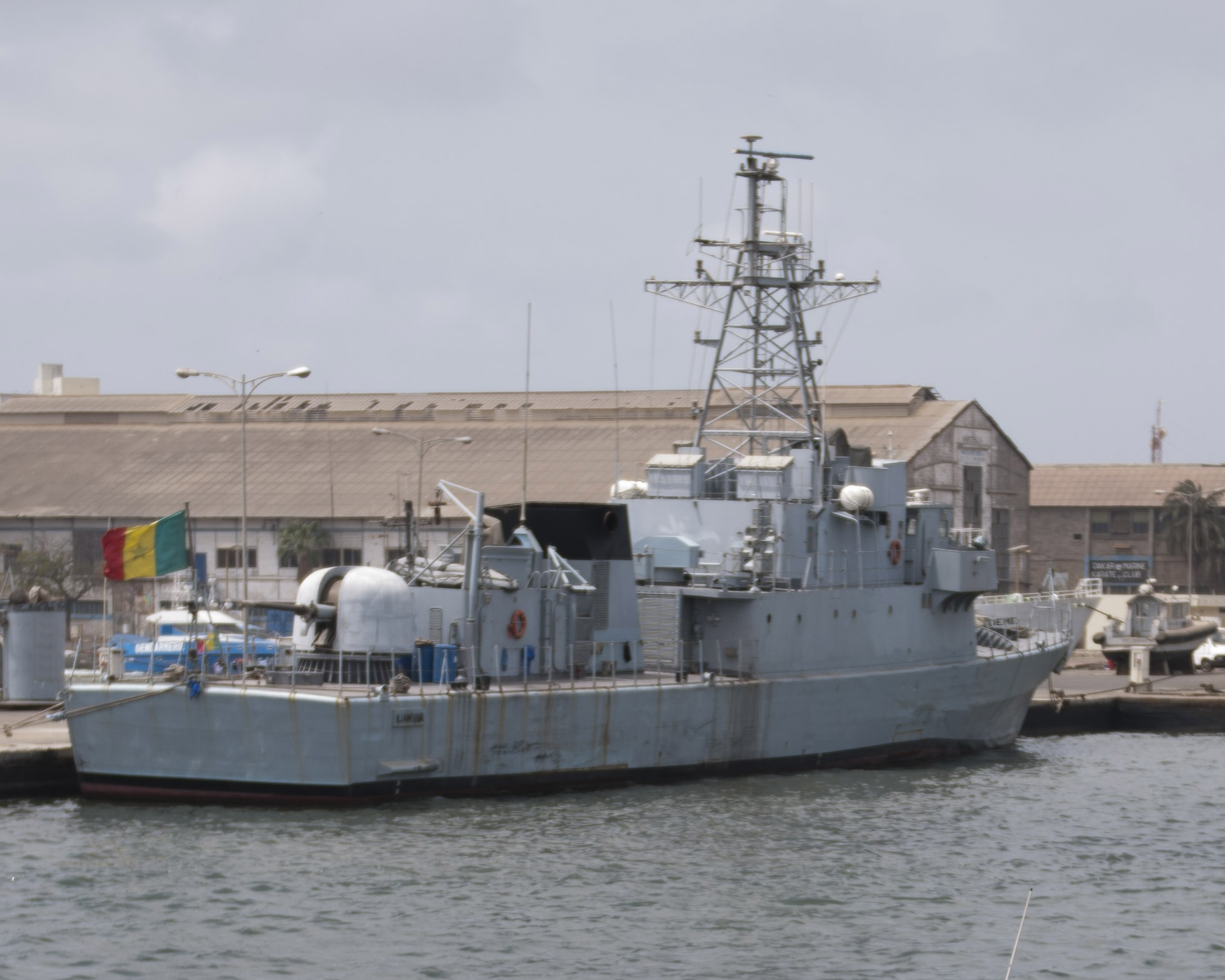 Patrouilleur sénégalais Njambuur en mars 2014 au port de Dakar.